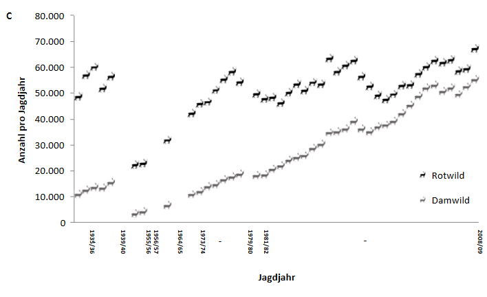 Annual hunting bag / hunting statistics of ungulates (Cervus elaphus and Dama dama) in Germany between 1935 and 2009